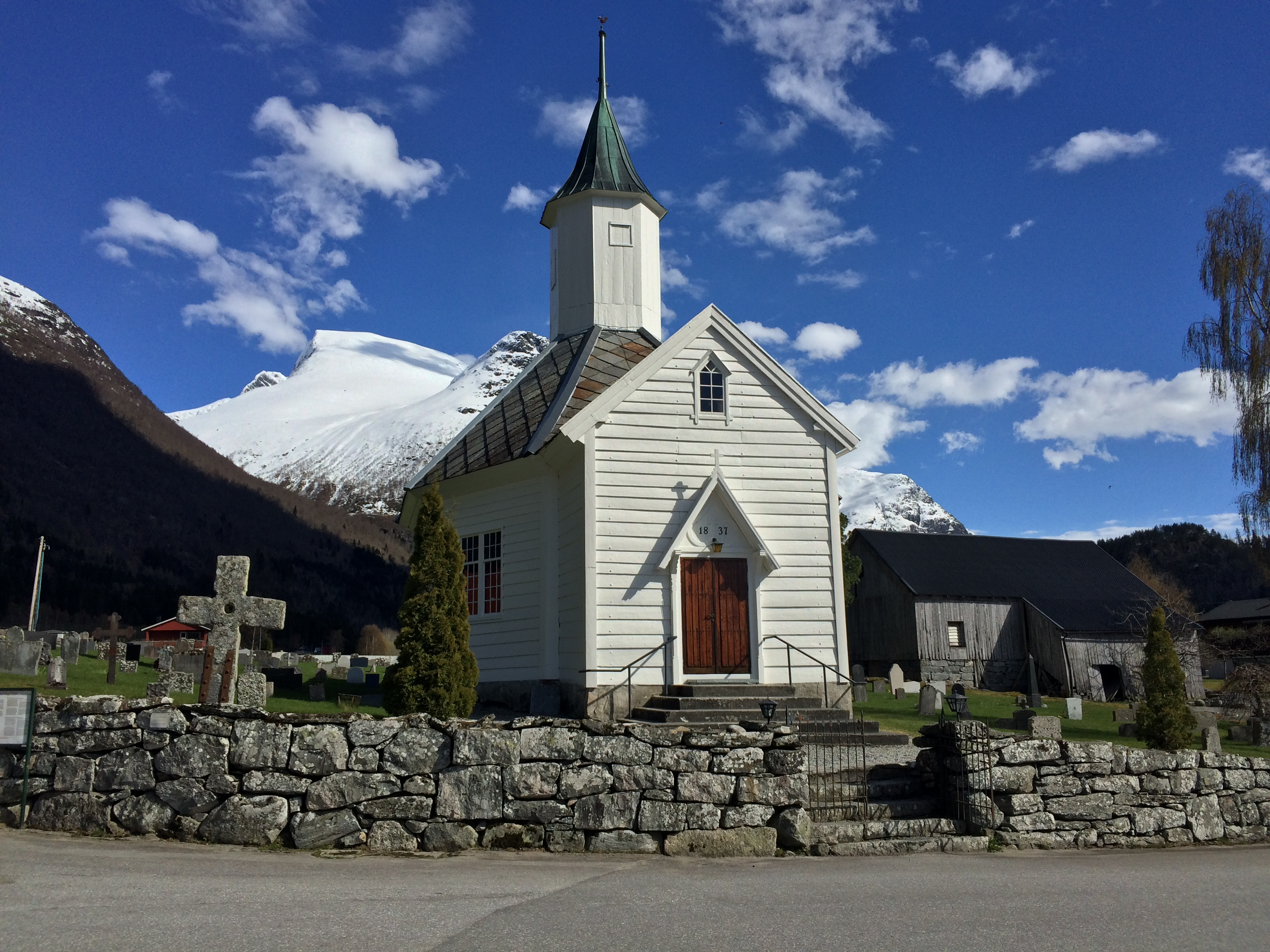 Loen Church in Loen, Stryn Municipality, Sogn og Fjordane, Norway. 28th April, 2015.